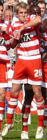 James Coppiner, cropped from Bristol Rovers vs Doncaster Rovers